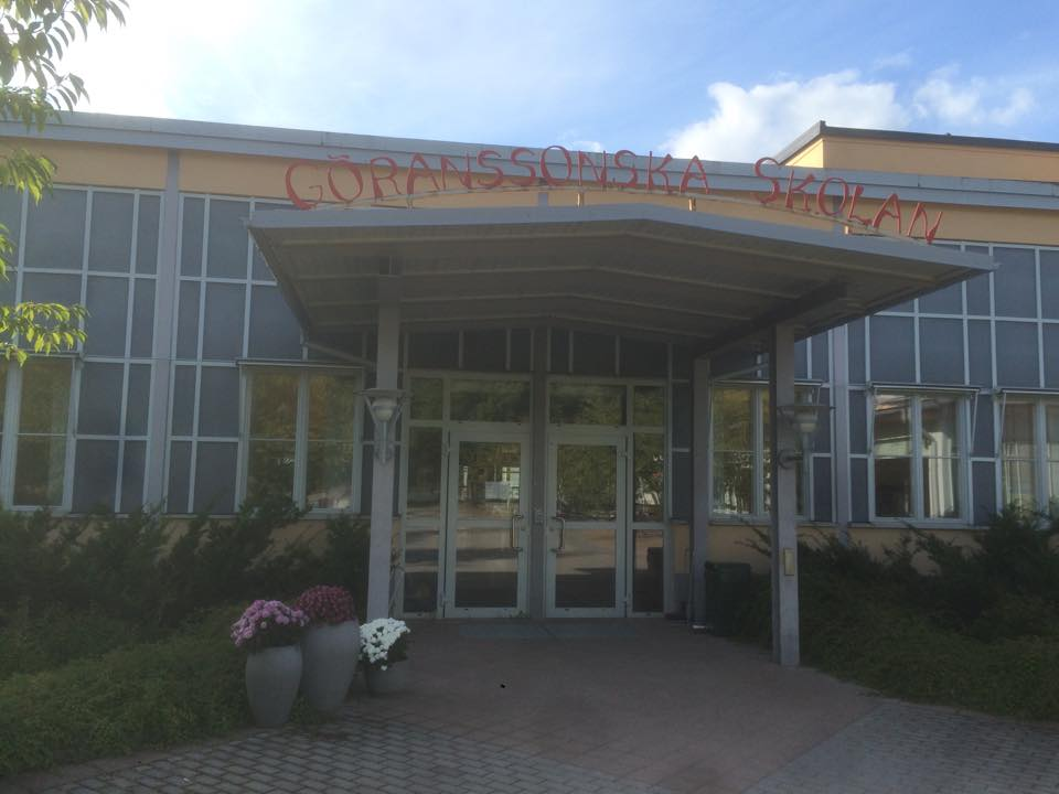 A picture showing the entrance of Göranssonska school in Sandviken, Sweden.